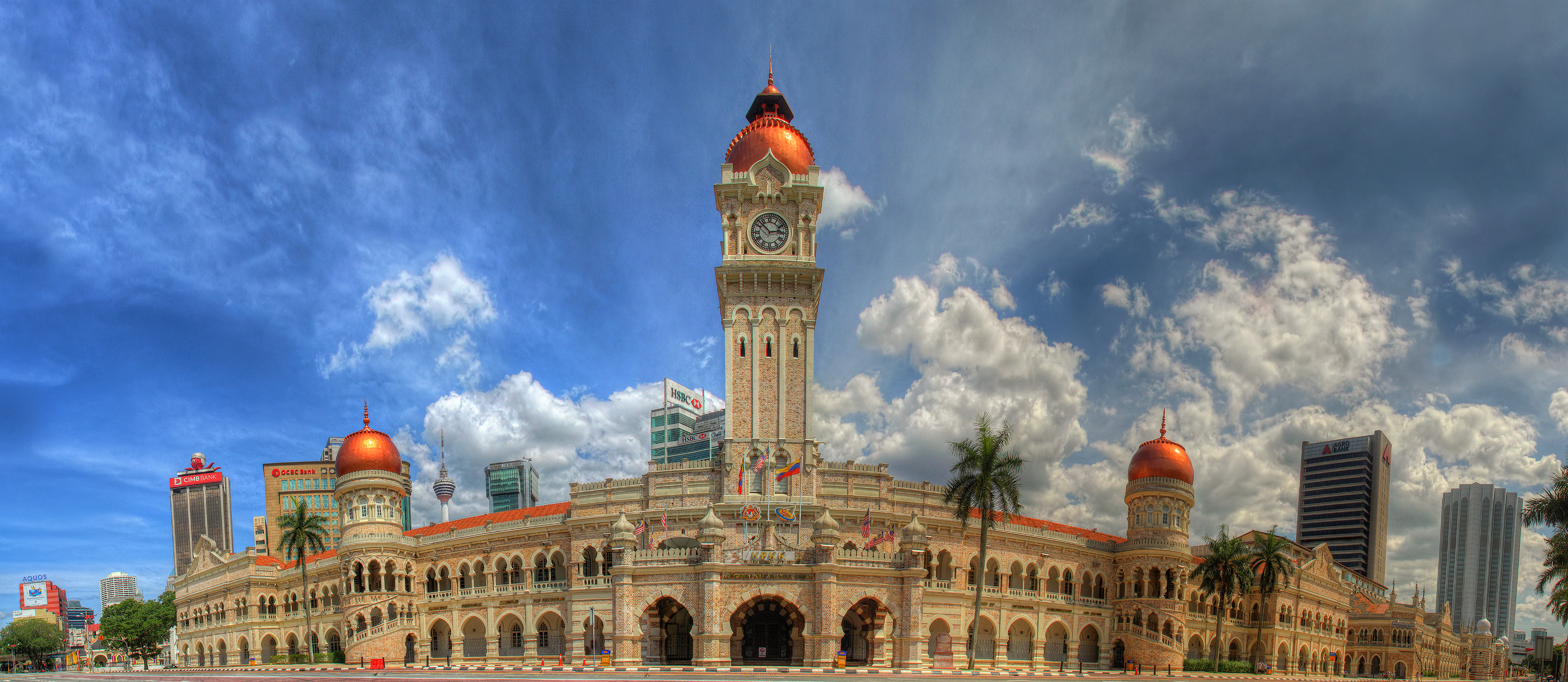 Year Built : 1897-1897 Architect : A.C.Norman & R.A.J Bidwell It used to house the 'Federated Malaysia States' administration in 1897, then the High Court and Supreme Court in 1972. It is now occupied by the Ministry of Information, Communications and Culture. The fist example of Moghul architecture in Malaysia, this elegant symmetrical brick structure features a 41-meter high clock tower, arched colonnades and copper domes.